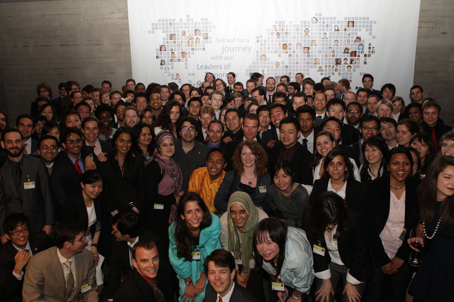 Leaders of Tomorrow at the 41. St. Gallen Symposium